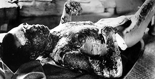 Victim of Atomic Bomb of Hiroshima.